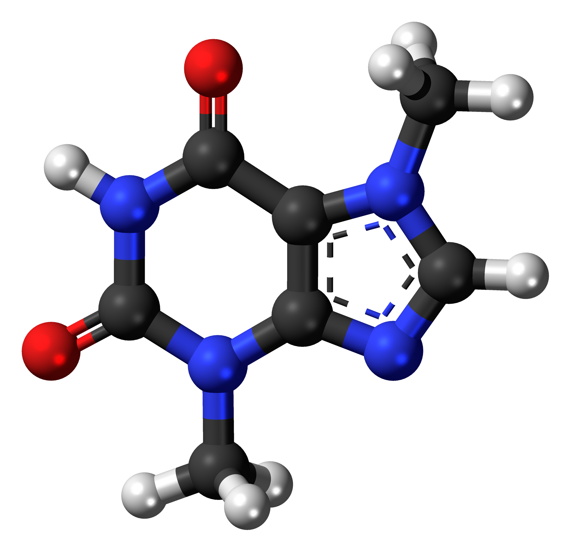 Ball-and-stick model of the theobromine molecule, also known as xantheose, and alkaloid found in chocolate. Colour code: Carbon, C: black Hydrogen, H: white Oxygen, O: red Nitrogen, N: blue